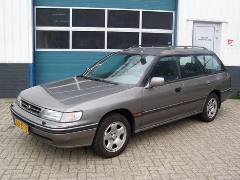 This is a picture of my own Subaru Legacy I (1993 model)